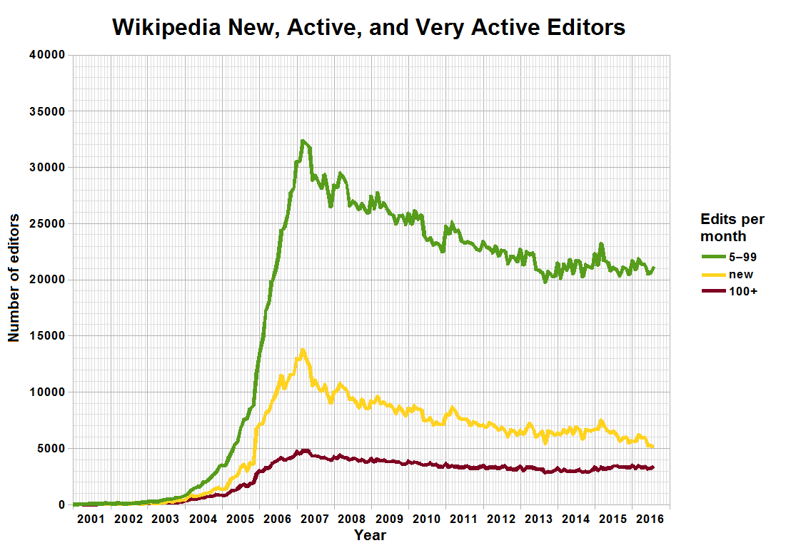 Wikipedia active editors increased by over 100%/year from 2001 to 2007, and has declined by 6.2%/year for active editors (over 100 edits/month) and by 11.27%/year for new editors making at least 5 edits in the last month from May 2007 until May 2013. The total number of new editors may be leveling off at about 6000/month and the number of active editors to 3000, but there was a sharp decrease in new editors in 2015, and in editors making over 5 edits, but an increase in editors making over 100 edits. Wikipedia appears to be entering a third phase. The first being rapid growth, the second disappointment, the third maturity.